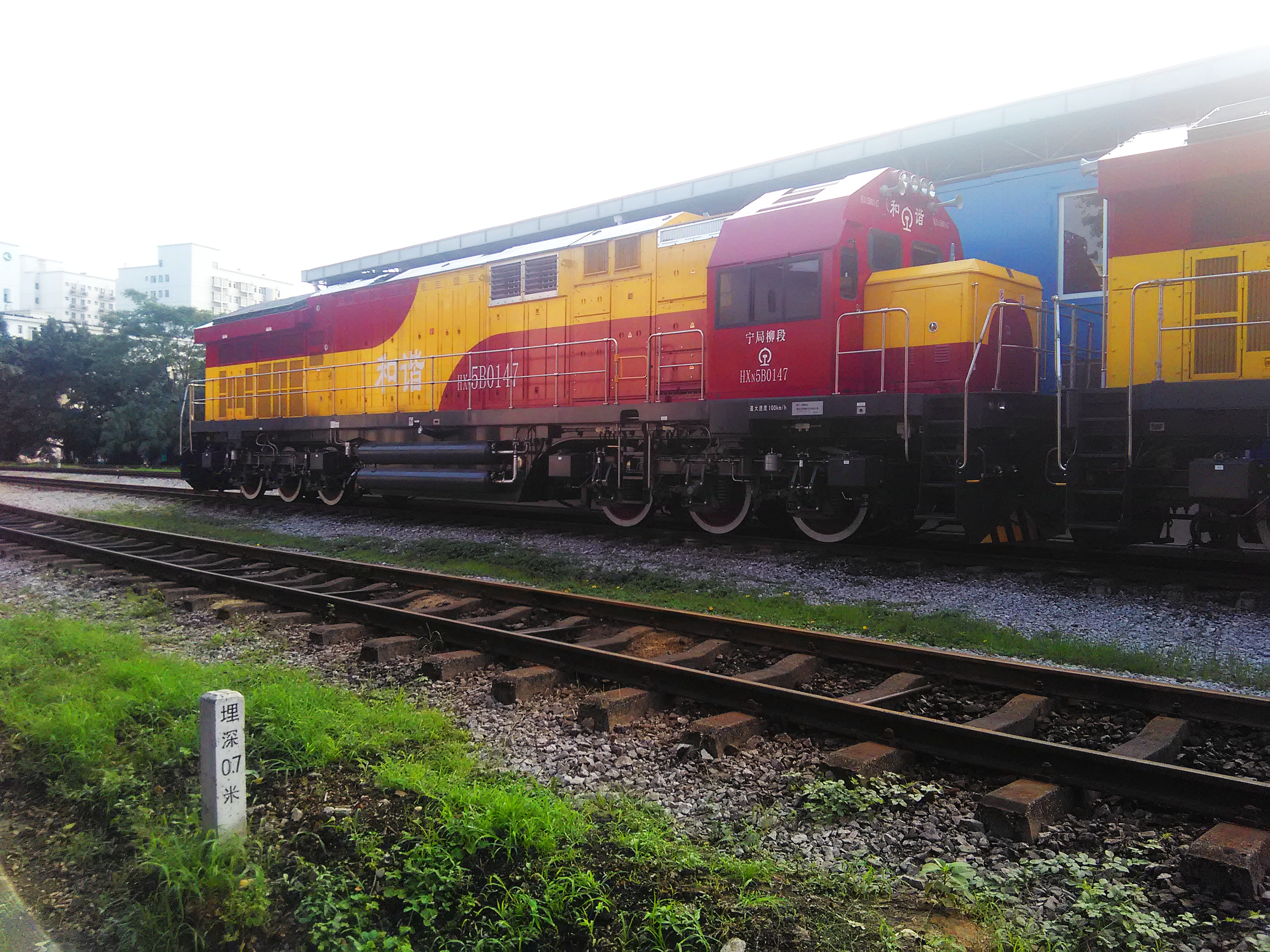 China Railways HXN5B 0147 in Liuzhou Locomotive Depot, Nanning Railway Bureau.